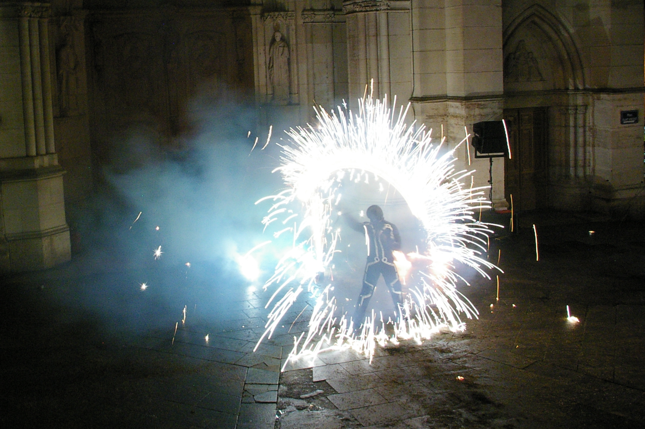 The french street arts company "Cessez L'Feu" using fireworks on a staff during their show "Pyrotronic"